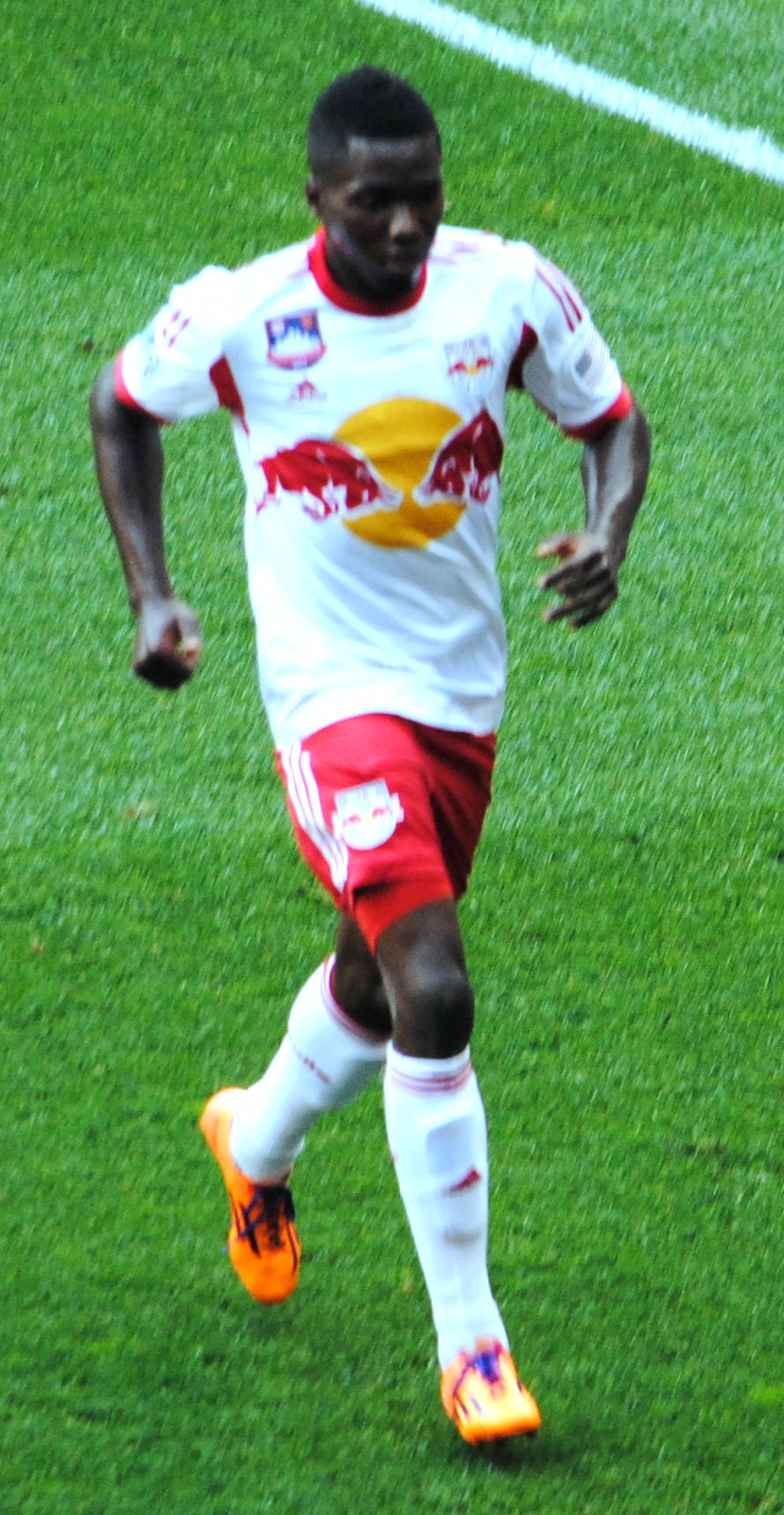 Ambroise Oyongo in action against Arsenal